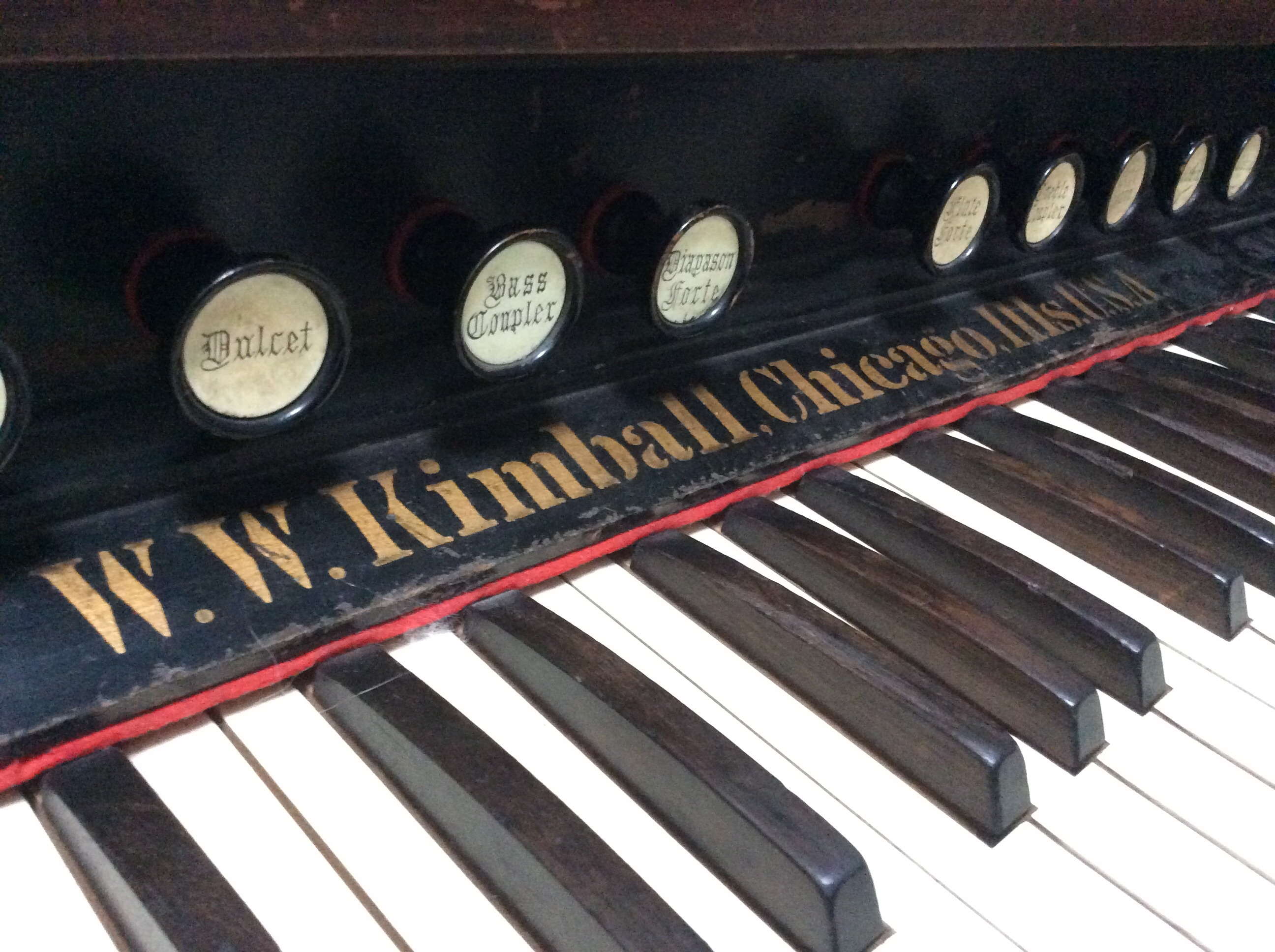 A late 1800s 10 stop kimball Organ.